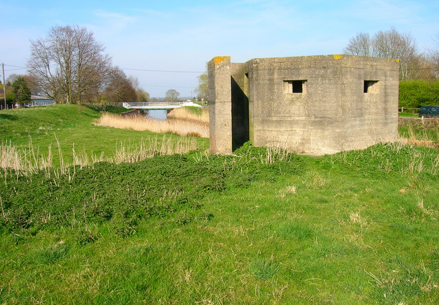 Pill Box, Royal Military Canal Defence mechanisms from two different wars; the canal to stem any invasion from Napoleon and the pill box to defend against any incursion from Hitler.